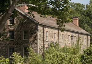 The Stone Mill at The New York Botanical Garden